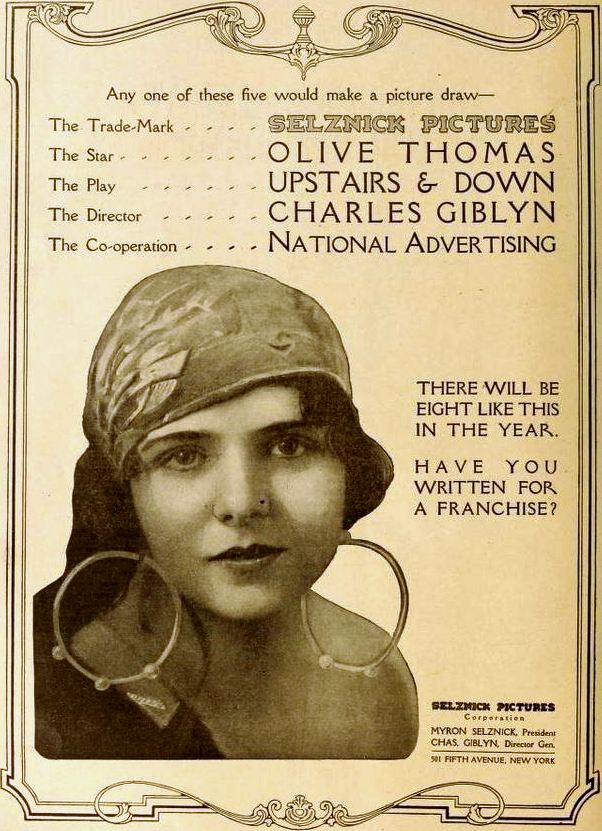 Ad for the American film Upstairs and Down (1919) with Olive Thomas, on page 822 of the February 15, 1919 Moving Picture World.